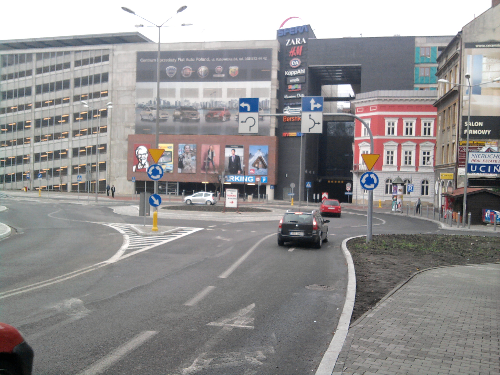 Turbo roundabout in Bielsko-Biala (Poland)